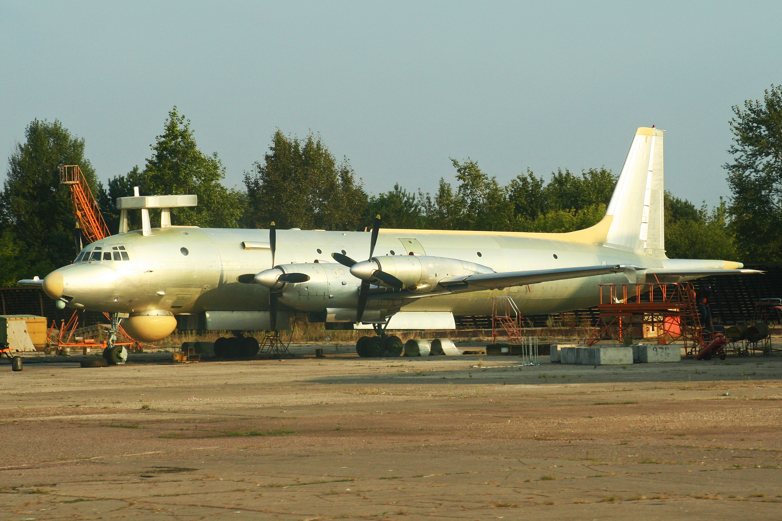 The finest gem on our visit to Zhukovsky was this Indian Navy IL-38SD 'May'. Unpainted and completely unmarked, it was later noted here fully painted (December 2012), confirming it's identity as 'IN305'. Originally built as a standard IL-38 for the Russian Navy, it was delivered to India in 1983 and modernised to SD standard with the Sea Dragon search and tracking system by 2006. This was actually the first 'SD' conversion and undertook some testing, including firing a Kh-35E anti-shipping missile. c/n 080010609, l/n 29. It was parked on the Ilyushin OKB ramp and seen from our coach as we departed the Russian Air Force 100th Anniversary Airshow. Zhukovsky, Russia. 12-8-2012